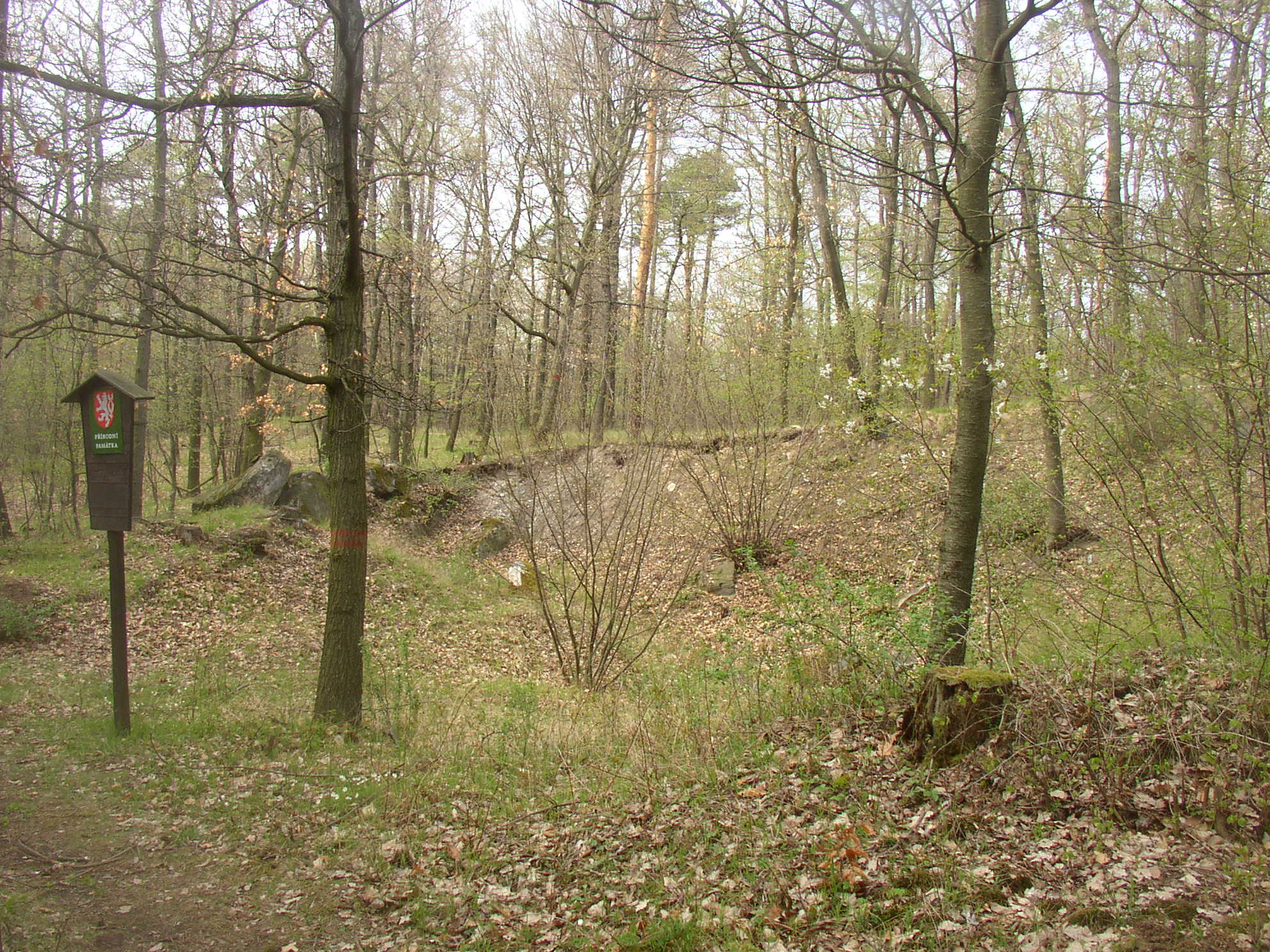 Žraločí zuby (Shark Teeth) Natural Monument in a forest near Vrapice, easternmost suburb of Kladno city, Czech Republic. Fossilized shark teeth were found at this locality.